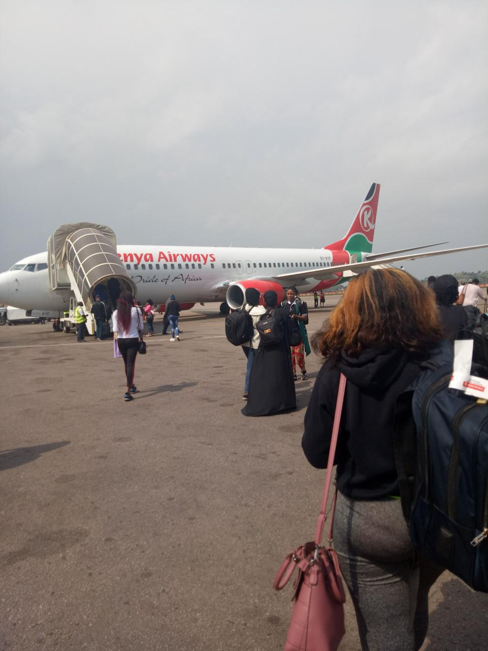 This is an image with the theme "Africa on the Move or Transport" from: Kenya